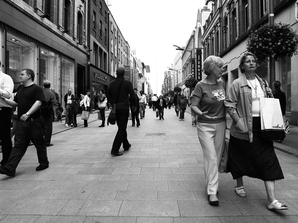 Henry Street, one of the most commercial streets in Dublin.August.2006 Juan Jose Rodriguez.